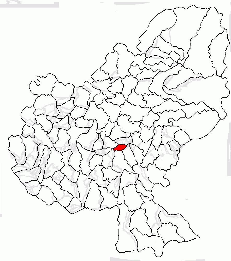 Locator map of the commune of Corunca, Mureș County, Romania